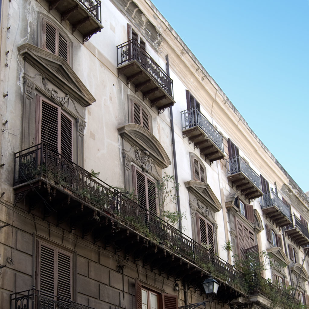 Palazzo Isnello, main facade. Palermo, Italy